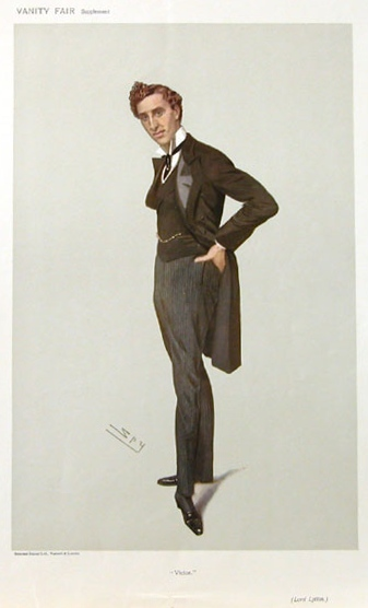 Caricature of Victor Bulwer-Lytton, 2nd Earl of Lytton. Caption reads "Victor".